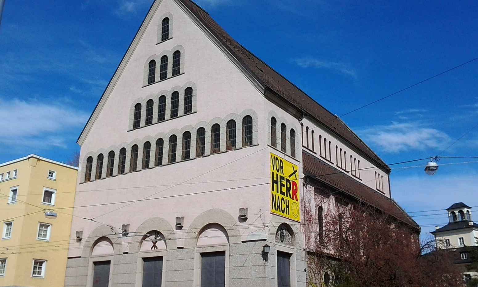 Saint Elizabeth church, Salzburg, Austria